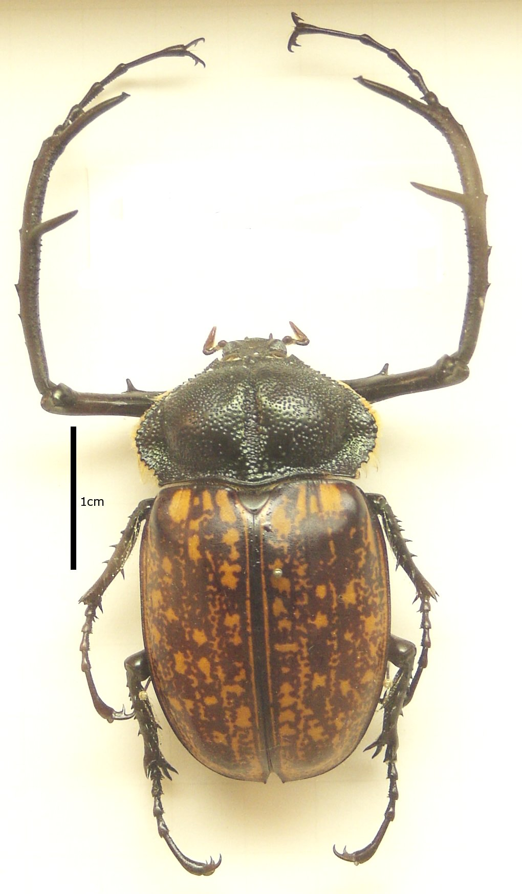 Cheirotonus macleayi (Scarabaeidae), mounted specimen from South Asia.